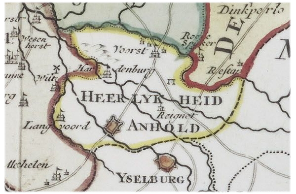 part of bigger map, zutphen county, heerlijkheid Anholt